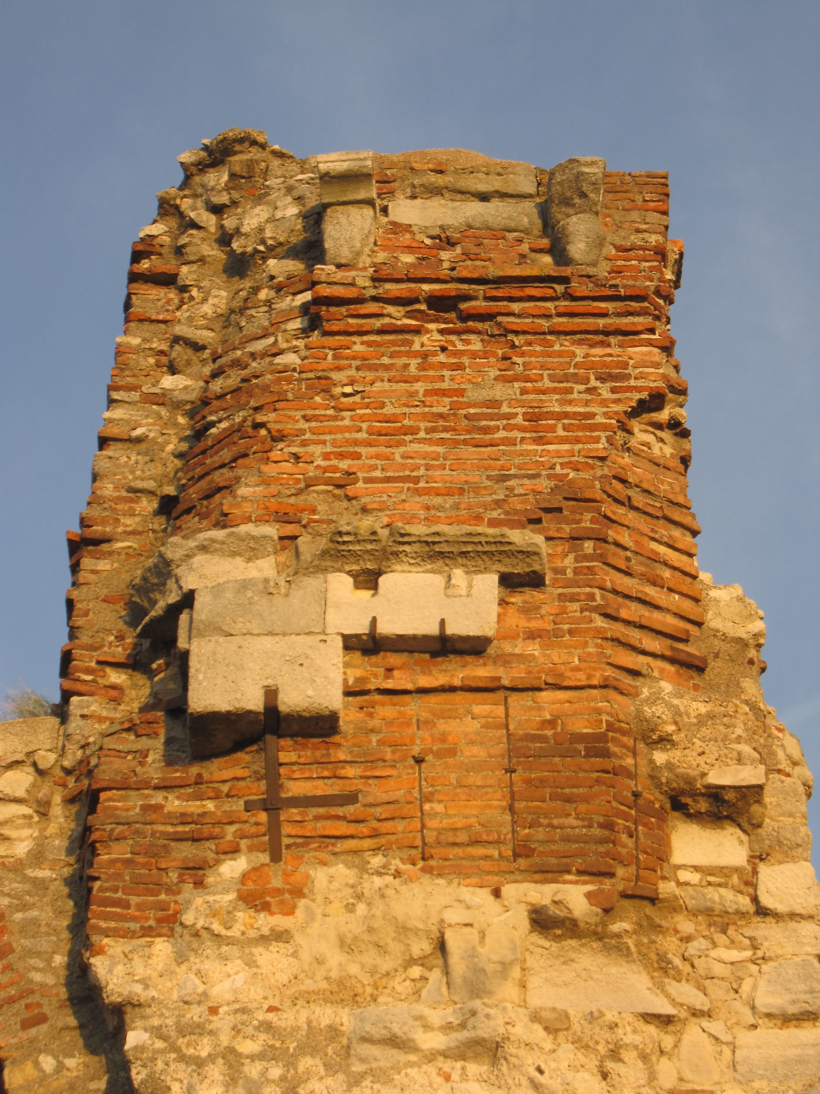 Roman Heidentor (Heathens Gate) in Carnuntum, Lower Austria.